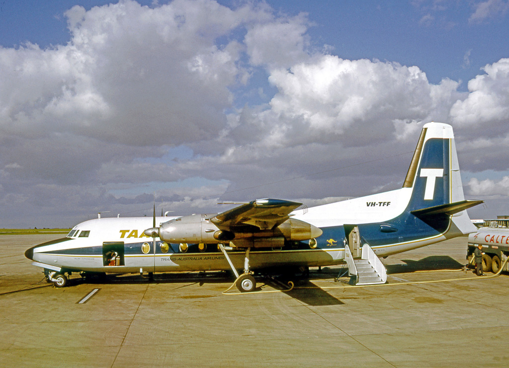 Fokker F.27 Friendship 100 VH-TFF of Trans Australia Airlines at Melbourne Essendon Airport in 1970